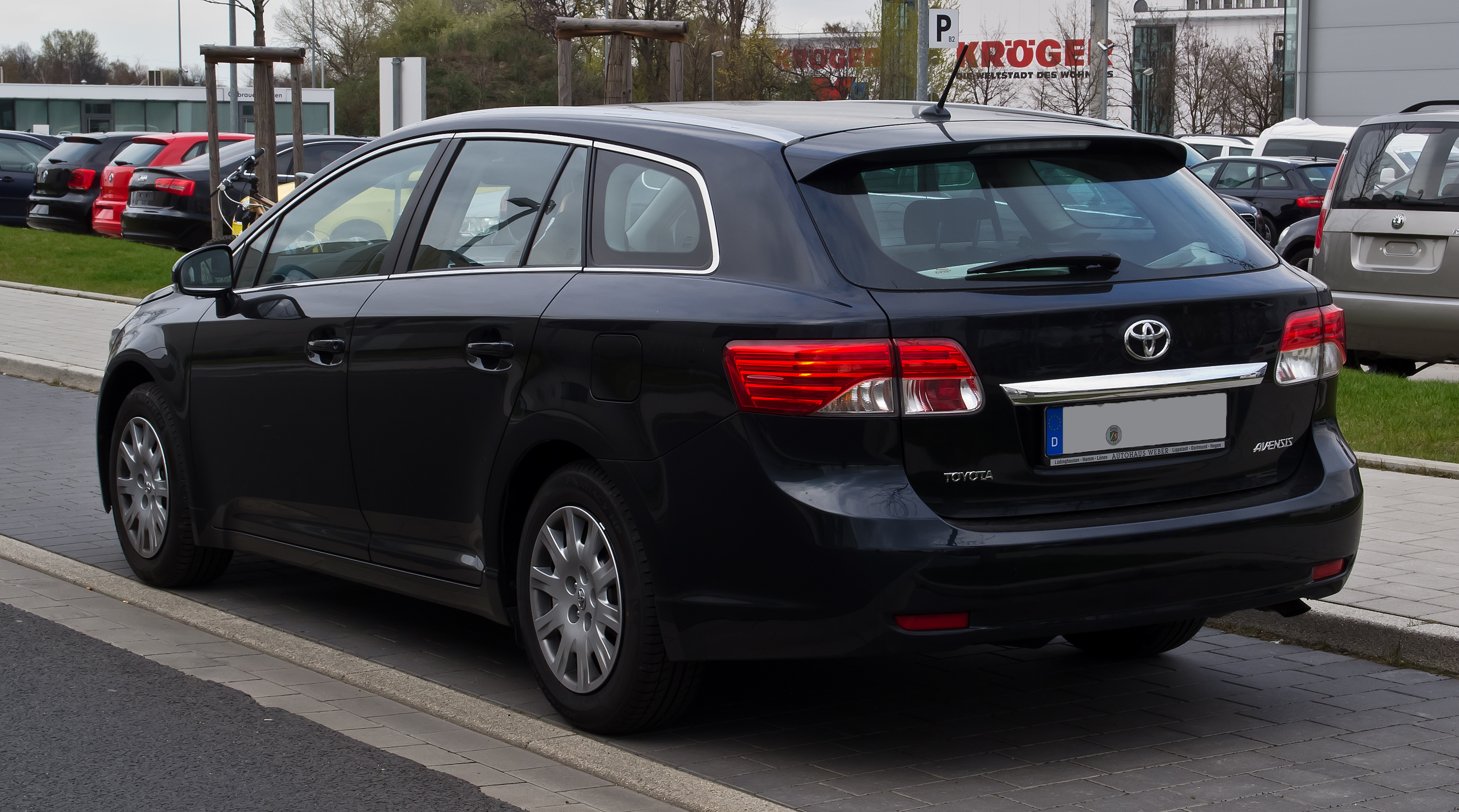 Toyota Avensis Combi (III, Facelift)